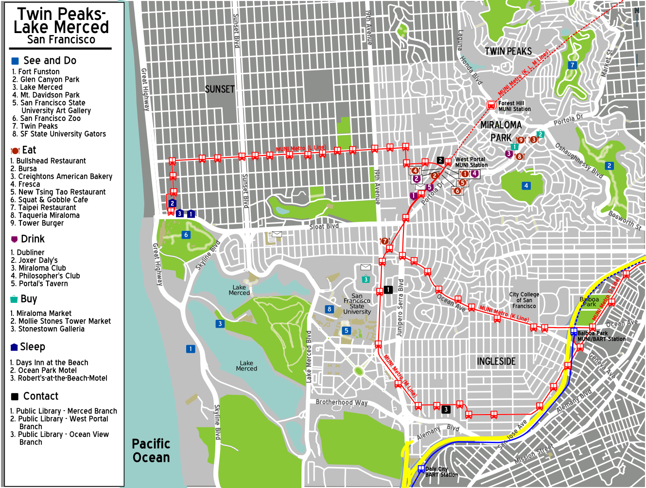 Twin Peaks-Lake Merced Map, San Francisco. For a more print-friendly version of this map, see :Image:Sanfrancisco twinpeaks printmap.png., San Francisco Map of: San Francisco¤